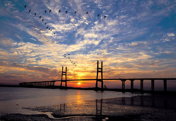 Seohae bridge - Seohaean Highway(West Coast Highway in South Korea)